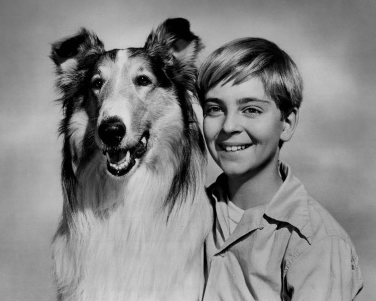 Publicity photo of American child actor, Tommy Rettig, and American canine performer Lassie promoting the CBS television series Lassie, circa 1955.